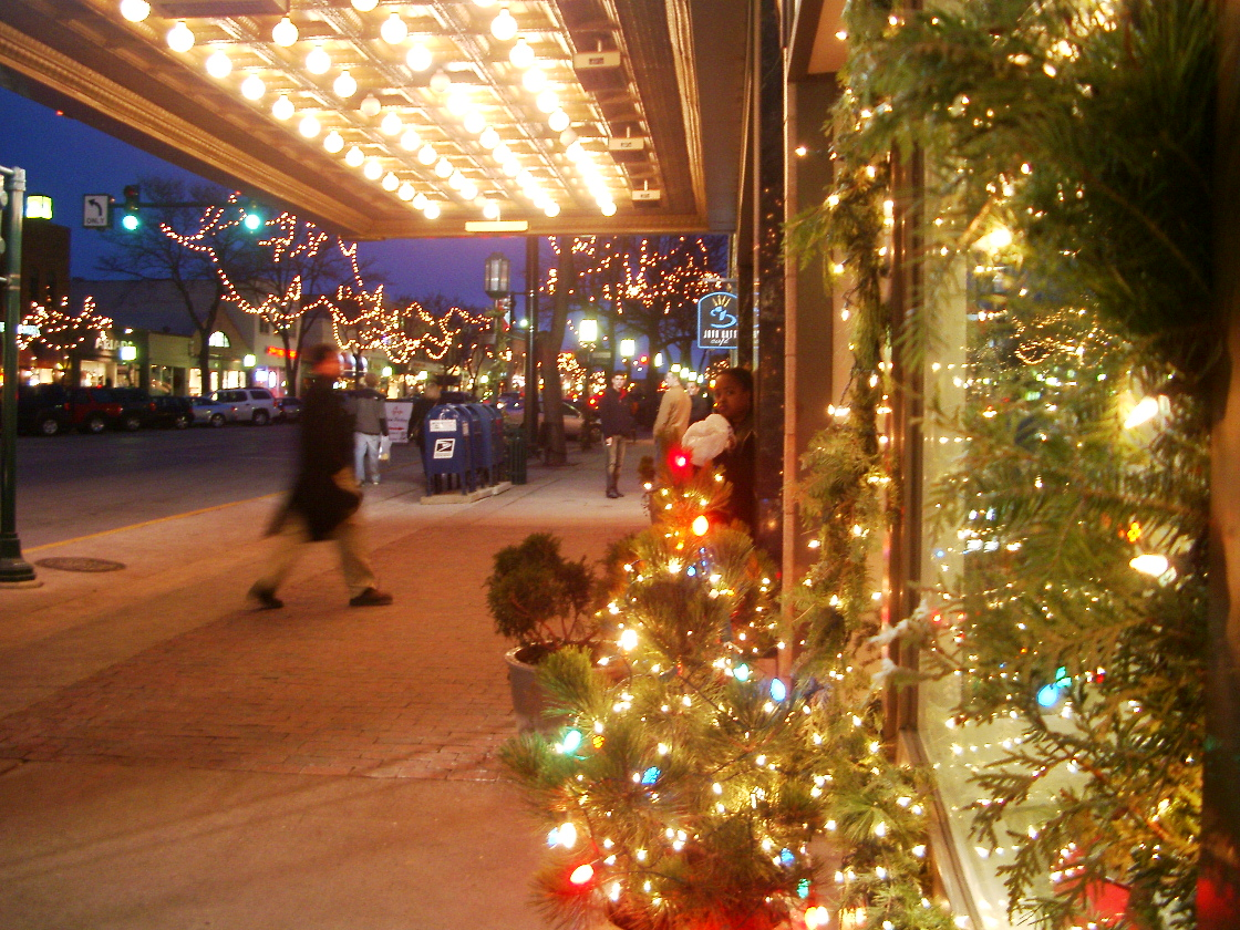 The Birmingham Theater.